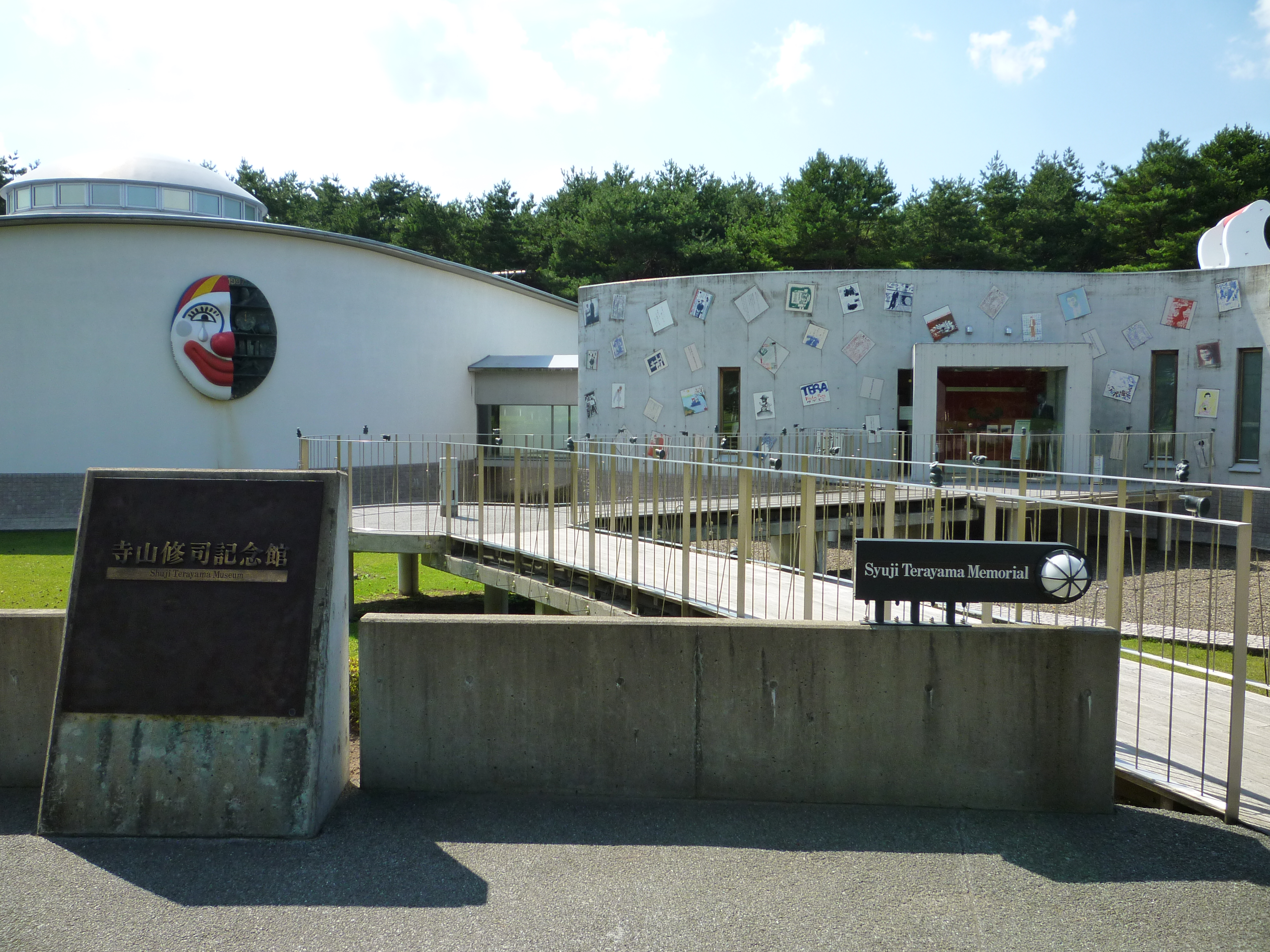 Syuji Tarayama memorial hall at misawa-city aomori-pref.